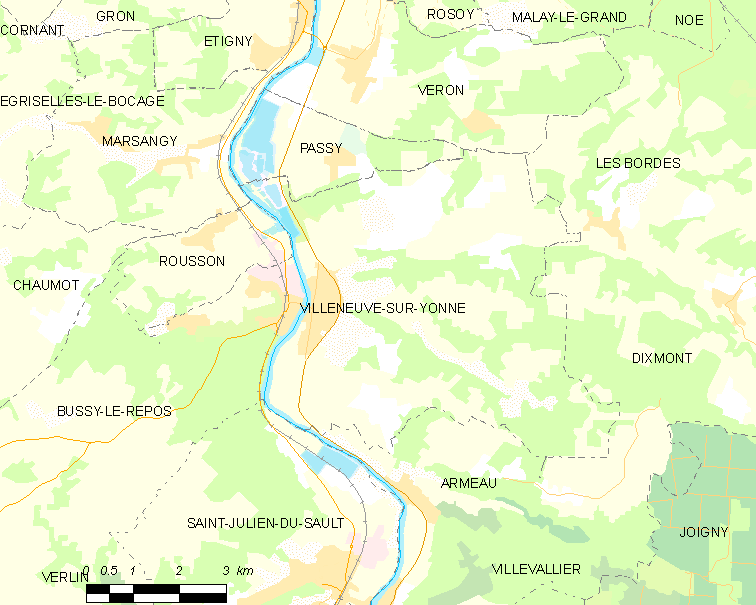 Map of French municipality Villeneuve-sur-Yonne